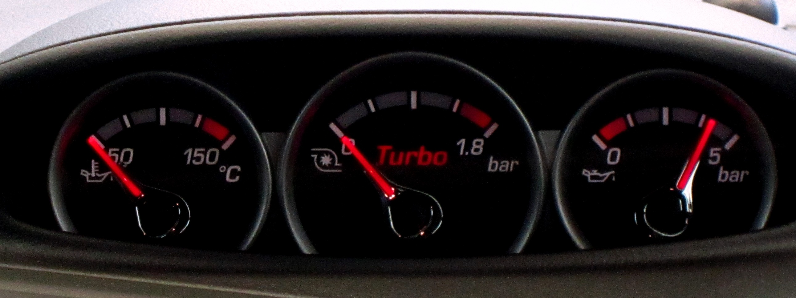 Check out the Three car comparison between the WRX STI, Vw Golf R, and this liitle Hot hatch, the Ford RS Focus; NRMA Drivers Seat.